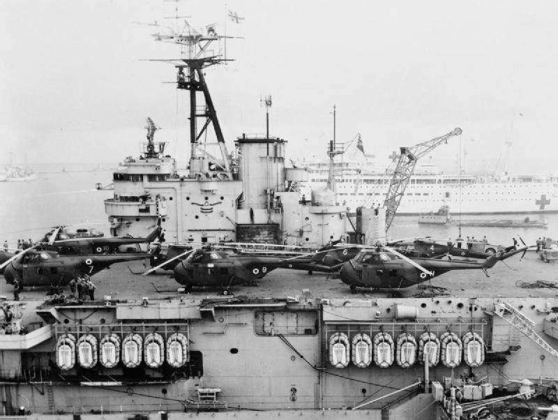 With a French hospital ship in the background the Royal Navy commando carrier HMS Theseus (R64) is shown with Westland Whirlwind and Bristol Sycamore helicopters of the joint RAF/Army unit which operated alongside Royal Navy helicopters from her flight deck.